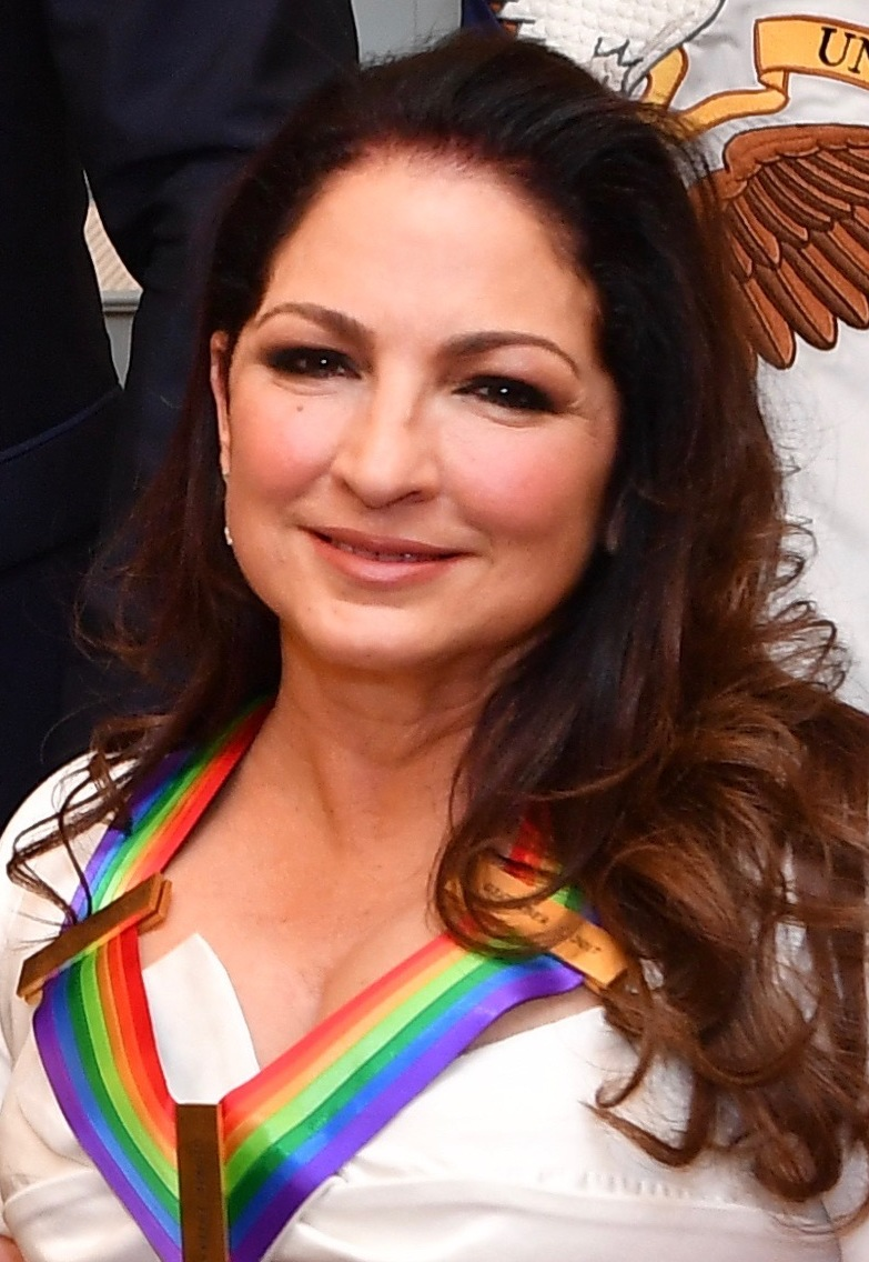 The 2017 Kennedy Center Honorees James Todd Smith "LLCoolJ", Lionel Richie, Carmen de Lavallade, Norman Lear and Gloria Estefan pose for a photo at the Kennedy Center Honors Dinner at the U.S. Department of State in Washington, D.C. on December 2, 2017. [State Department Photo/ Public Domain]